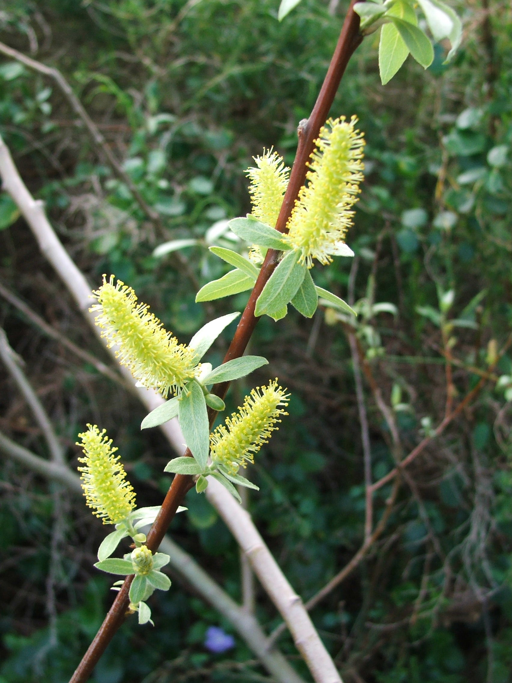 The Cape Safsaf willow. Salix mucronata or Salix hirsuta, Salix capensis. Cape Town.